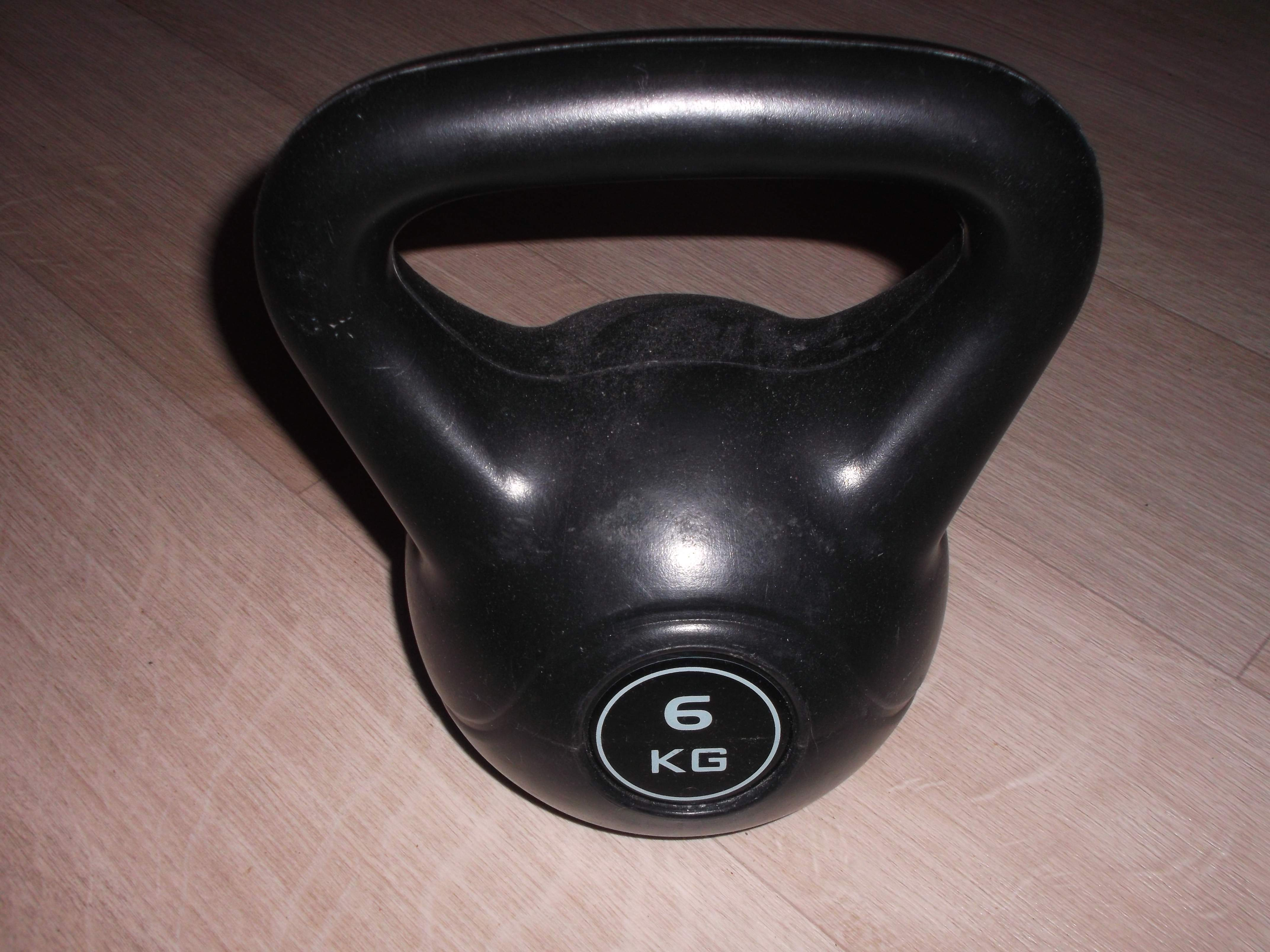 Modern kettlebell for fitness (plastic housing), 6 kg (13,23 lb).